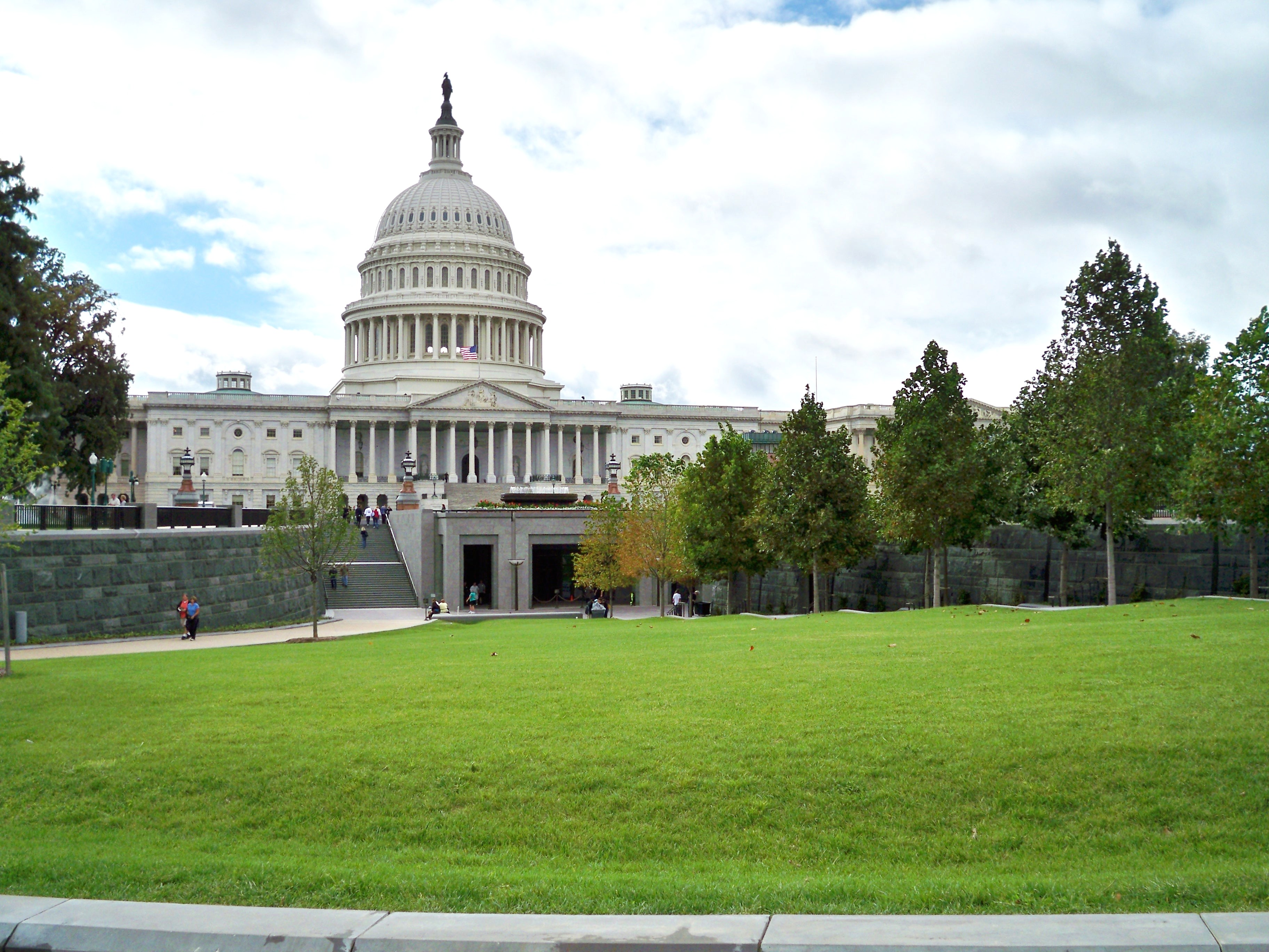 The southern entrance to the Capitol Visitors Center in Washington, DC.